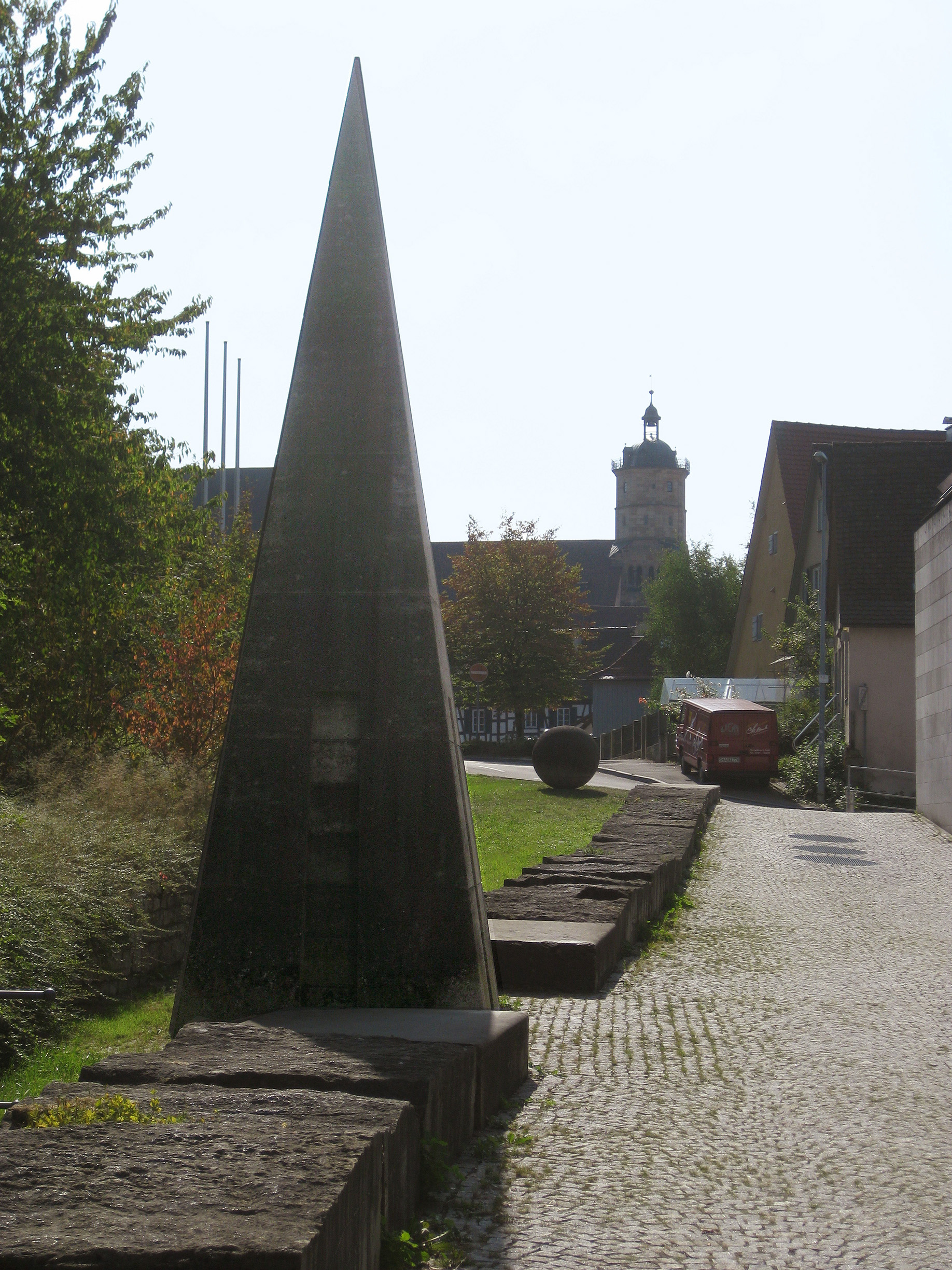 Heinz L. Pistol, Kugel, Pyramide, Stadtmauer, 1988, - Germany, Baden-Wuerttemberg, Schwaebisch Hall